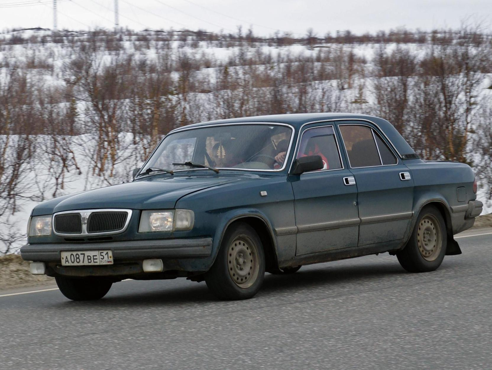 Some russian car driving M18 near Monchegorsk.